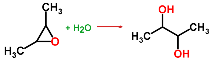 2,3-butanediol synthesis